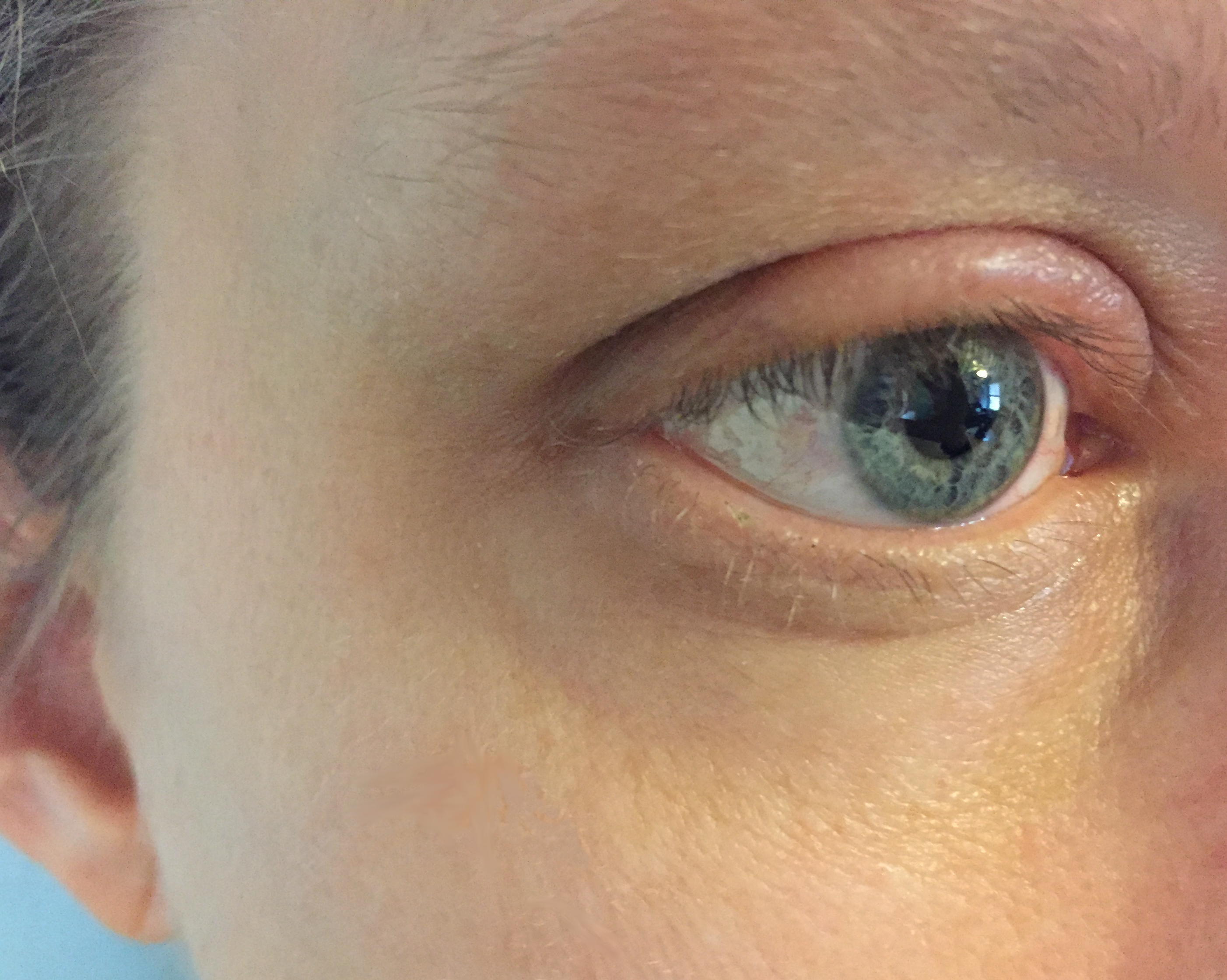 Allergies—such as to pollen, dust and pet dander—are a common cause of swollen eyelids. Other allergy symptoms may include watery, red and itchy eyes. Credit: NIAID